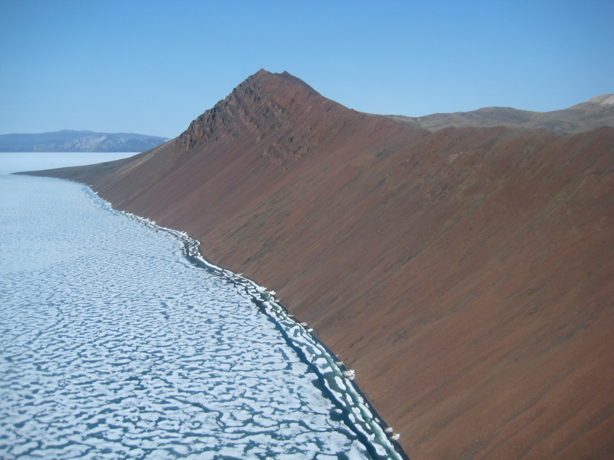 Basalt rock with sea ice at Axel Heiberg Island, Nunavut, Canada.